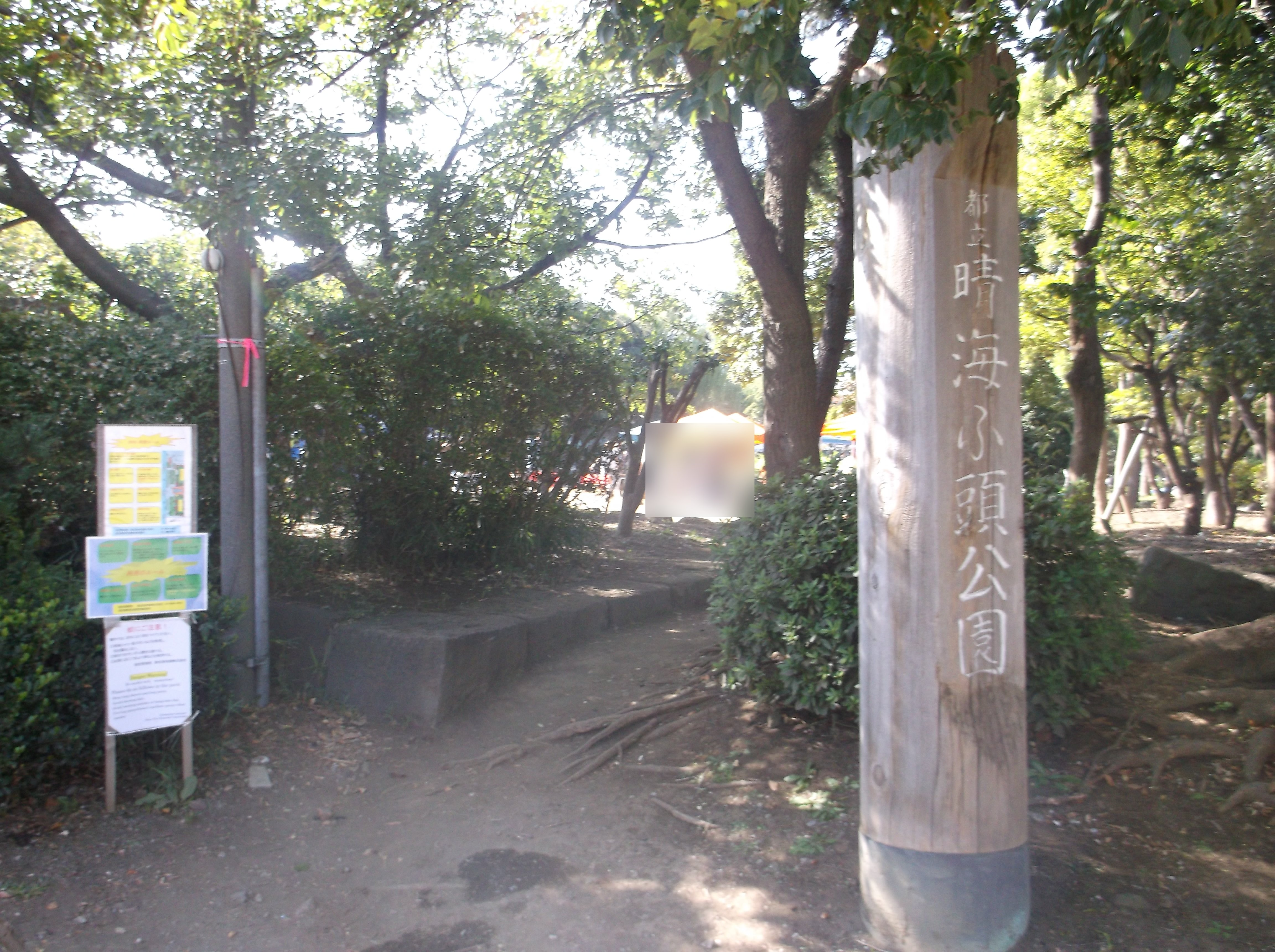 Entrance of the Harumi Terminal Park in Harumi, Chuo Ward, Tokyo, Japan